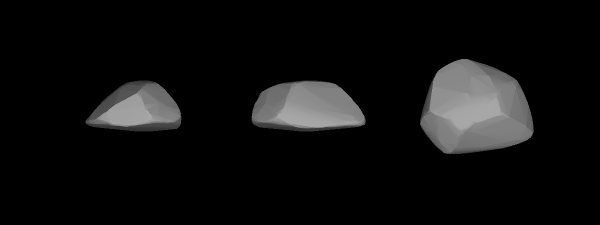 A three-dimensional model of 119 Althaea that was computed using light curve inversion techniques.